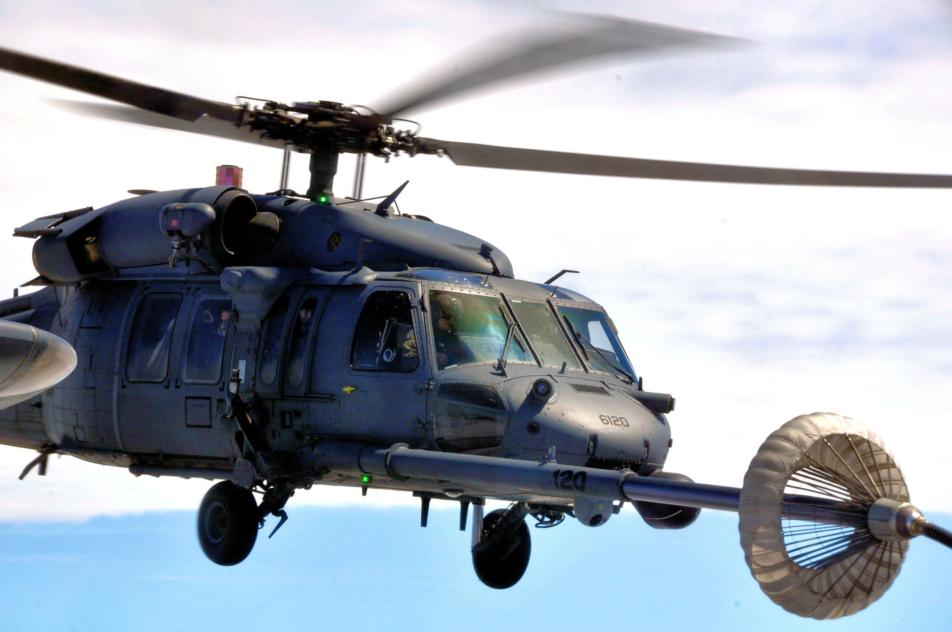 An HH-60 Pave Hawk from the 129th Rescue Squadron performs an aerial refueling with a MC-130P Combat Shadow, during a search and rescue mission off the coast of Northern California, April 15, 2012. The aircraft offloads approximately 7000lbs of fuel to the helicopter at 125 knots per hour in eight minutes. (Air National Guard photo by Staff Sgt. Kim E. Ramirez)